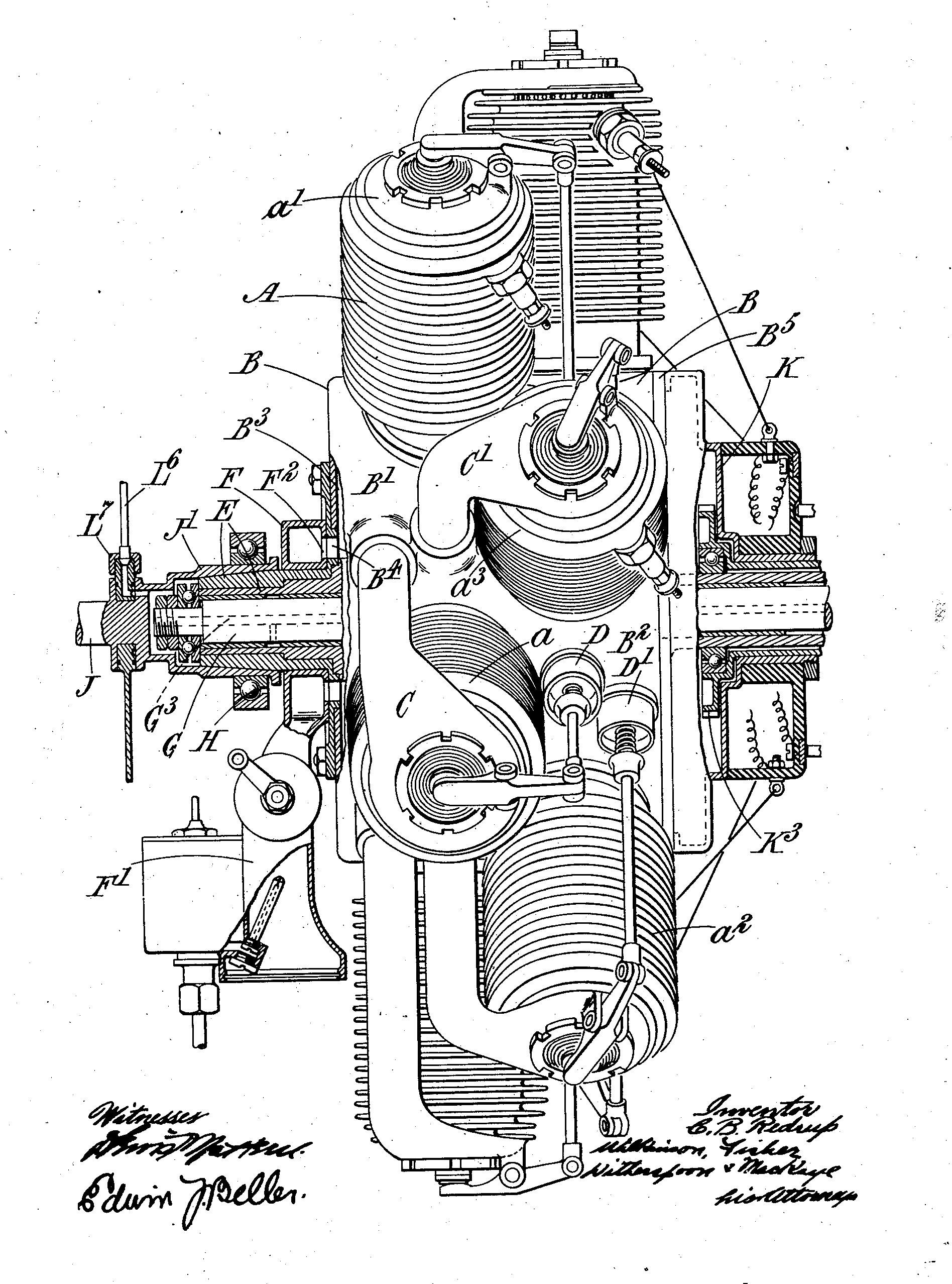 Revolving-cylinder internal-combustion engine A cylinders B drum-shapedcrank-chamber C two induction pipes D valveoperating mechanisms E trunnions F hollow ring G crank-shaft H ball-bearing I cupped end J shaft L lubricating conduit ...